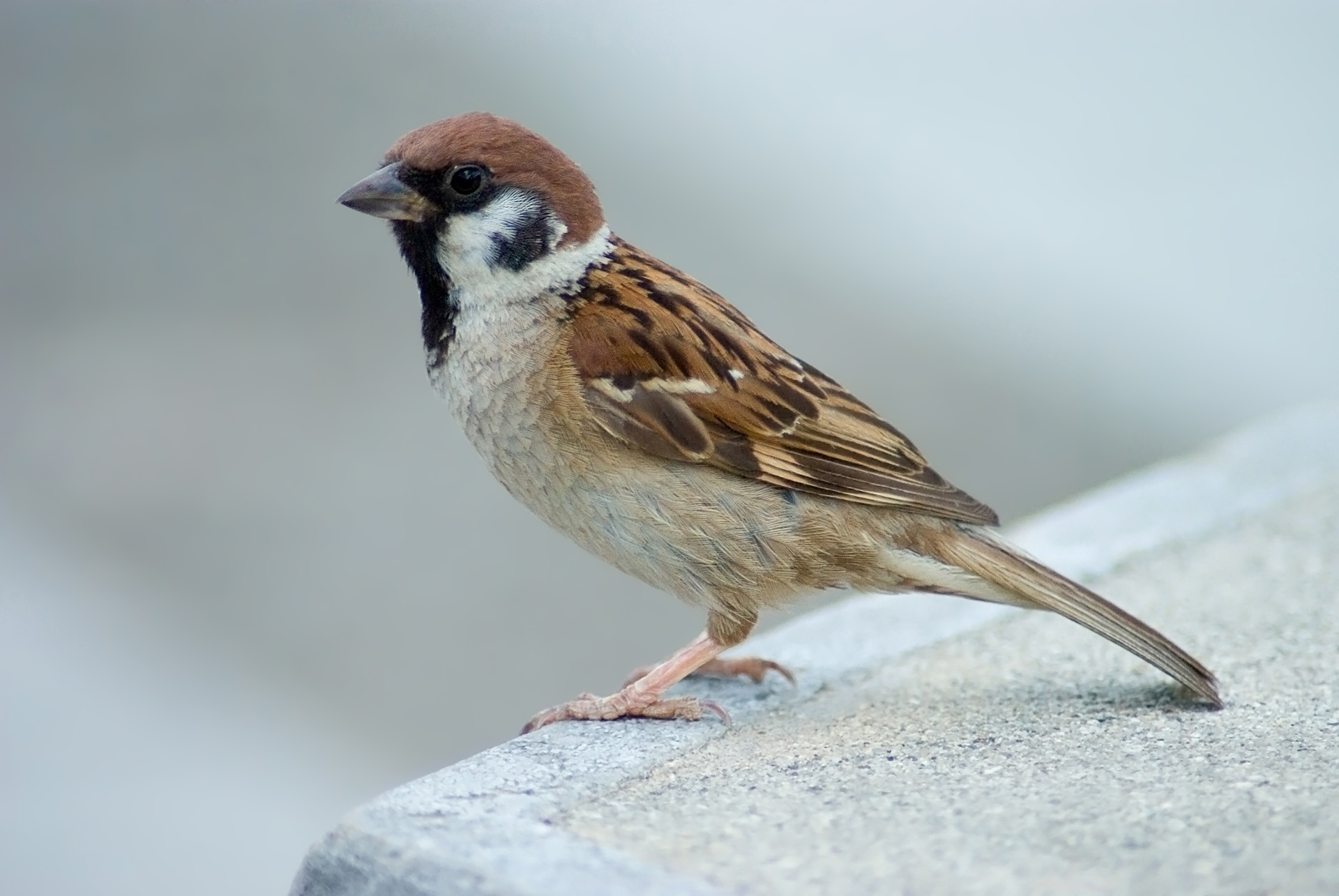 Tree Sparrow